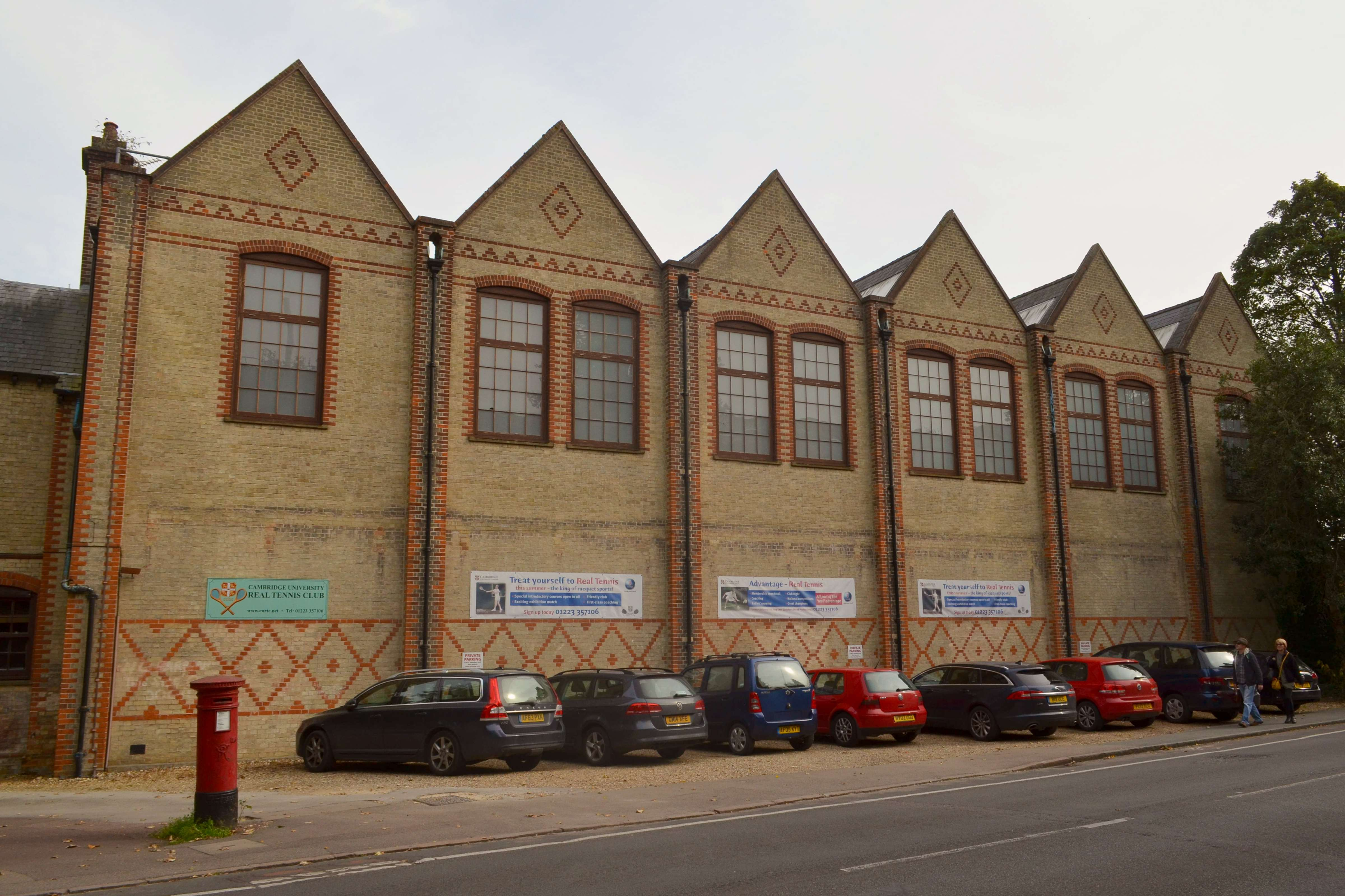 Cambridge Real Tennis Club exterior in September 2017.